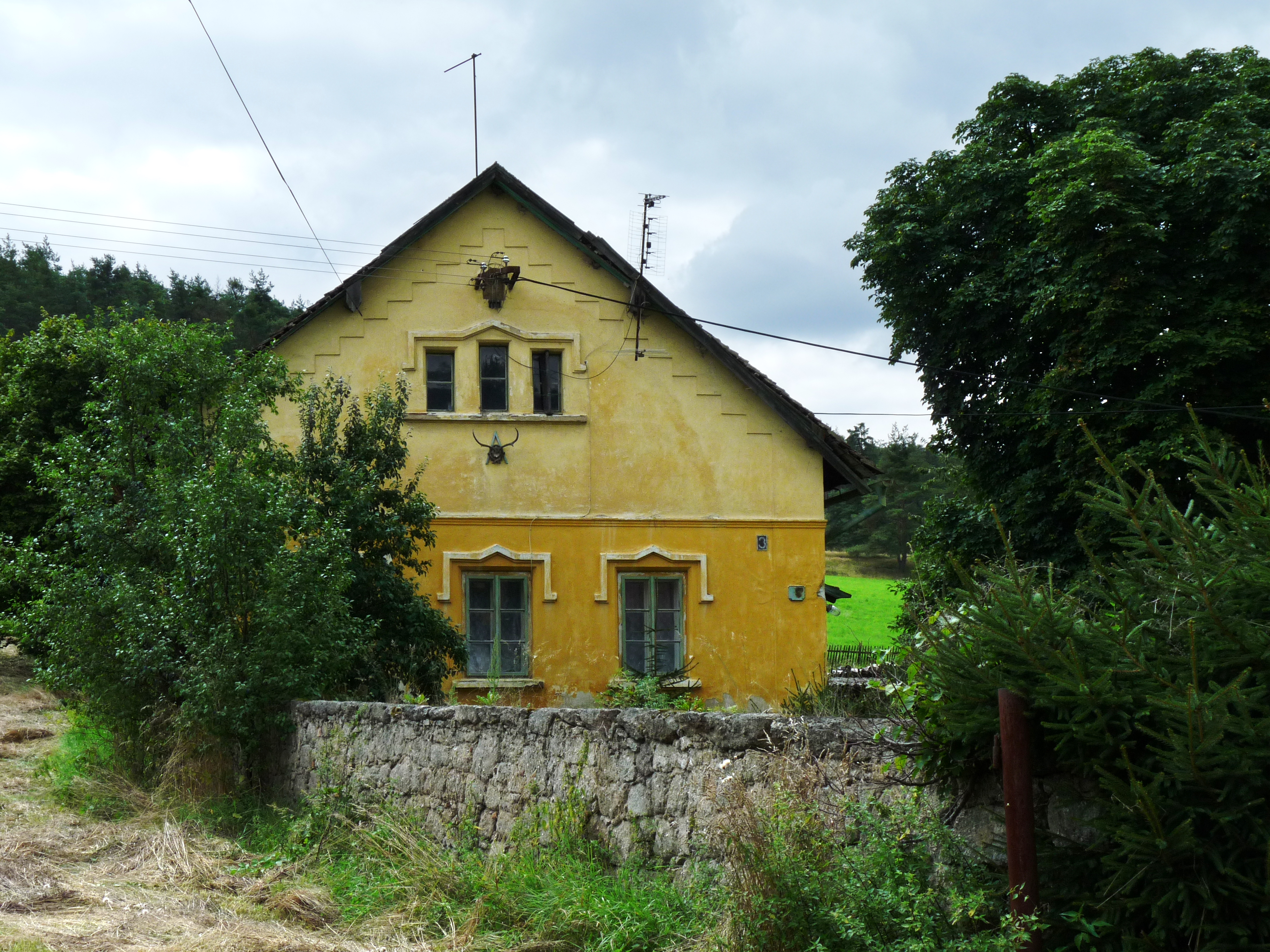 House No 3 in the village of Švastalova Lhota, Příbram District, Central Bohemian Region, Czech Republic.